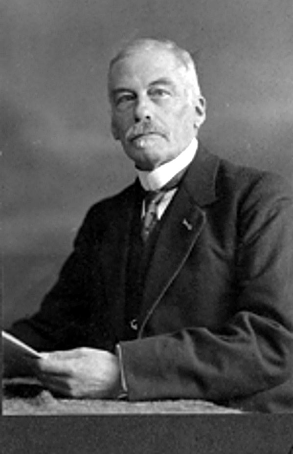 Jan C. Kluijver (1860-1932), professor mathematics Leiden University (The Netherlands)